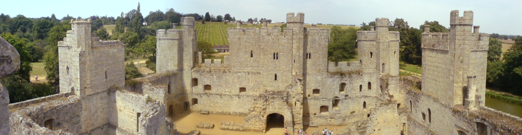 Interior's view of Bodiam Castle